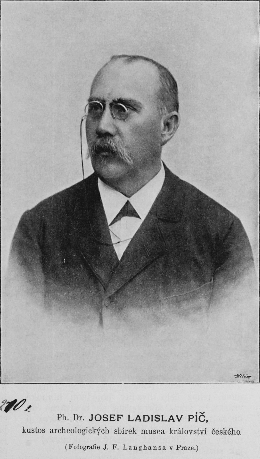 Portrait of Josef Ladislav Píč (1847–1911), Czech historian and archaeologist, custodian of archaeologic collections of National Museum in Prague. Also signed by printmaker Jan Vilím (1856–1923).